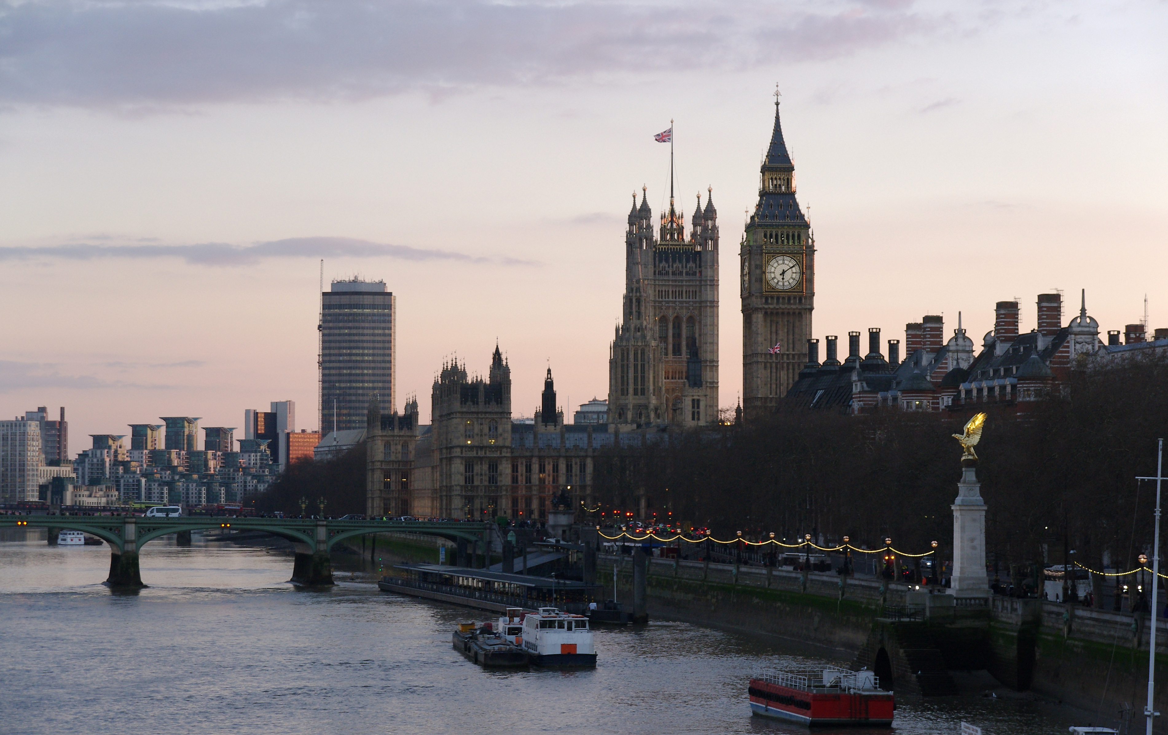 Big Ben and the Palace of Westminster, viewed from the bridge at Charing Cross.